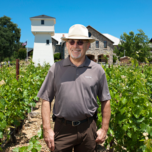 Daniel Baron, Winemaker of Silver Oak and Twomey Cellars.